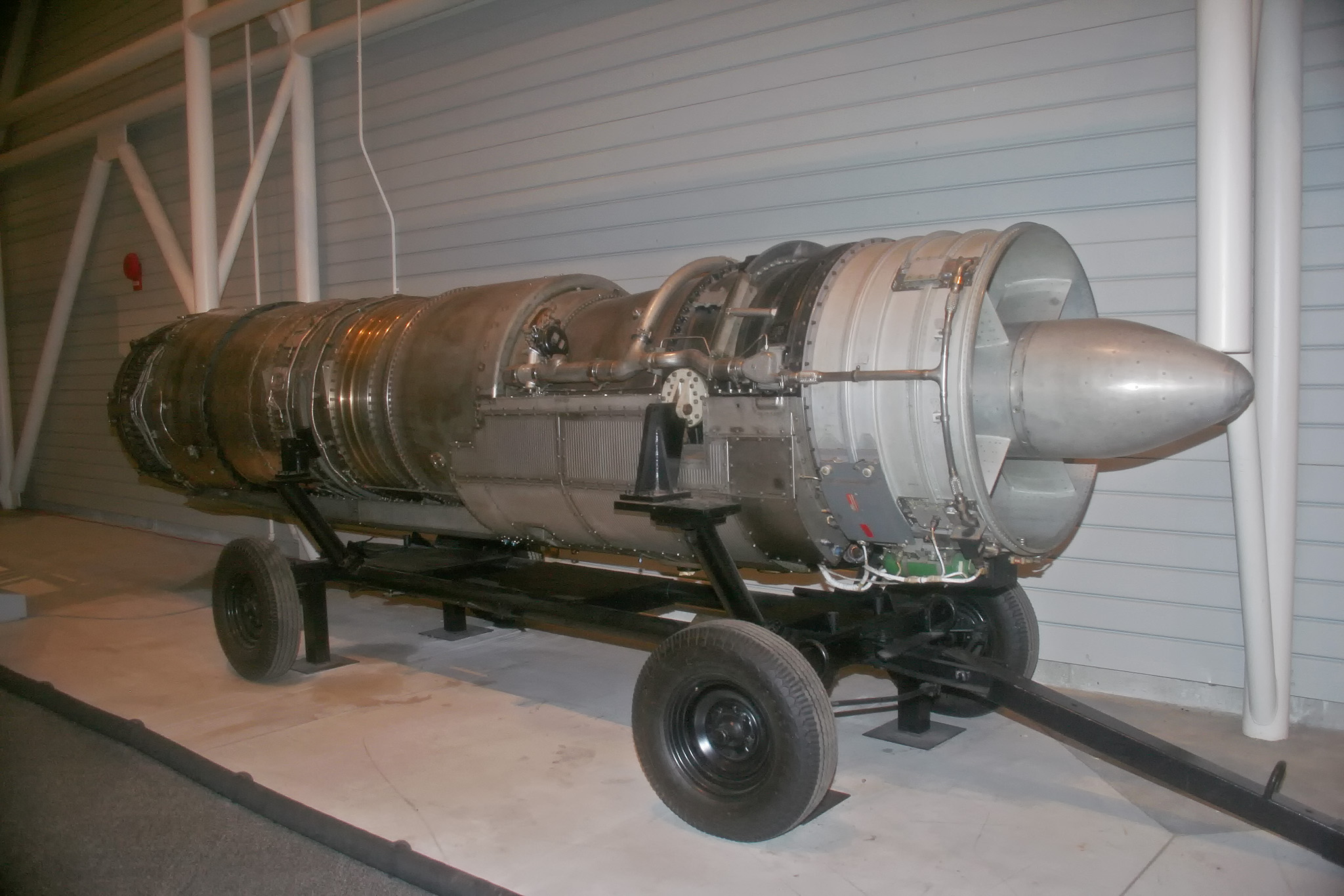 Orenda PS.13 Iroquois turbojet engine on display at the Canada Aviation Museum, Ottawa